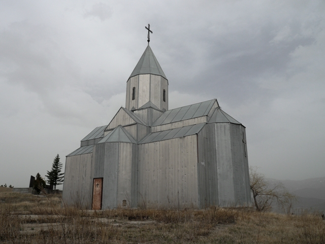 Spitak. Cemetery. Metallic church